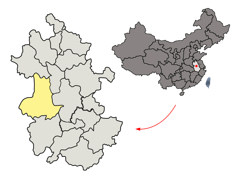 Location of Lu'an Prefecture (yellow) within Anhui Province of China Map drawn in december 2007 using various sources, mainly : Anhui Province administrative regions GIS data: 1:1M, County level, 1990 Anhui Counties map from